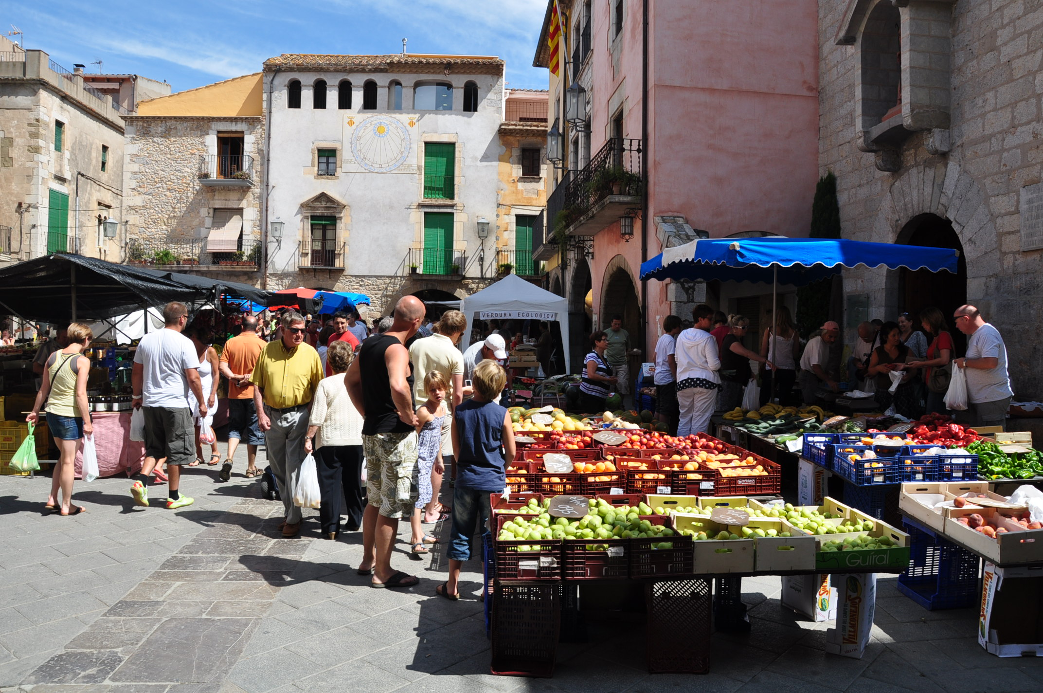 Weekly market on the Main Square (Plaça de la Vila) of Torroella de Montgrí (County of Baix Empordà, Catalonia, Spain).